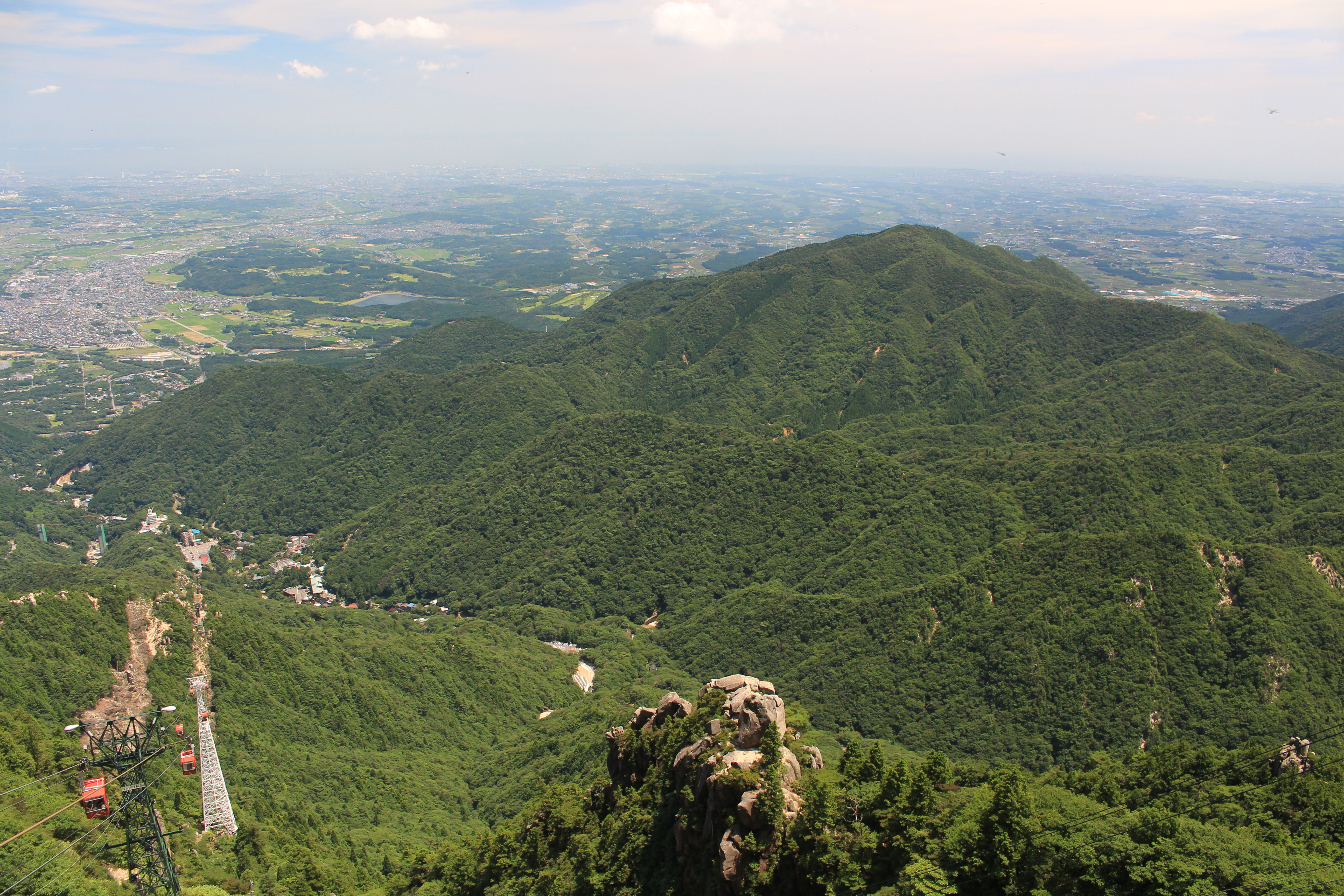 Mount Kirara seen from Mount Gozaisho in Suzuka Mountains, Yokkaichi and Komono, Mie Prefecture, Japan.